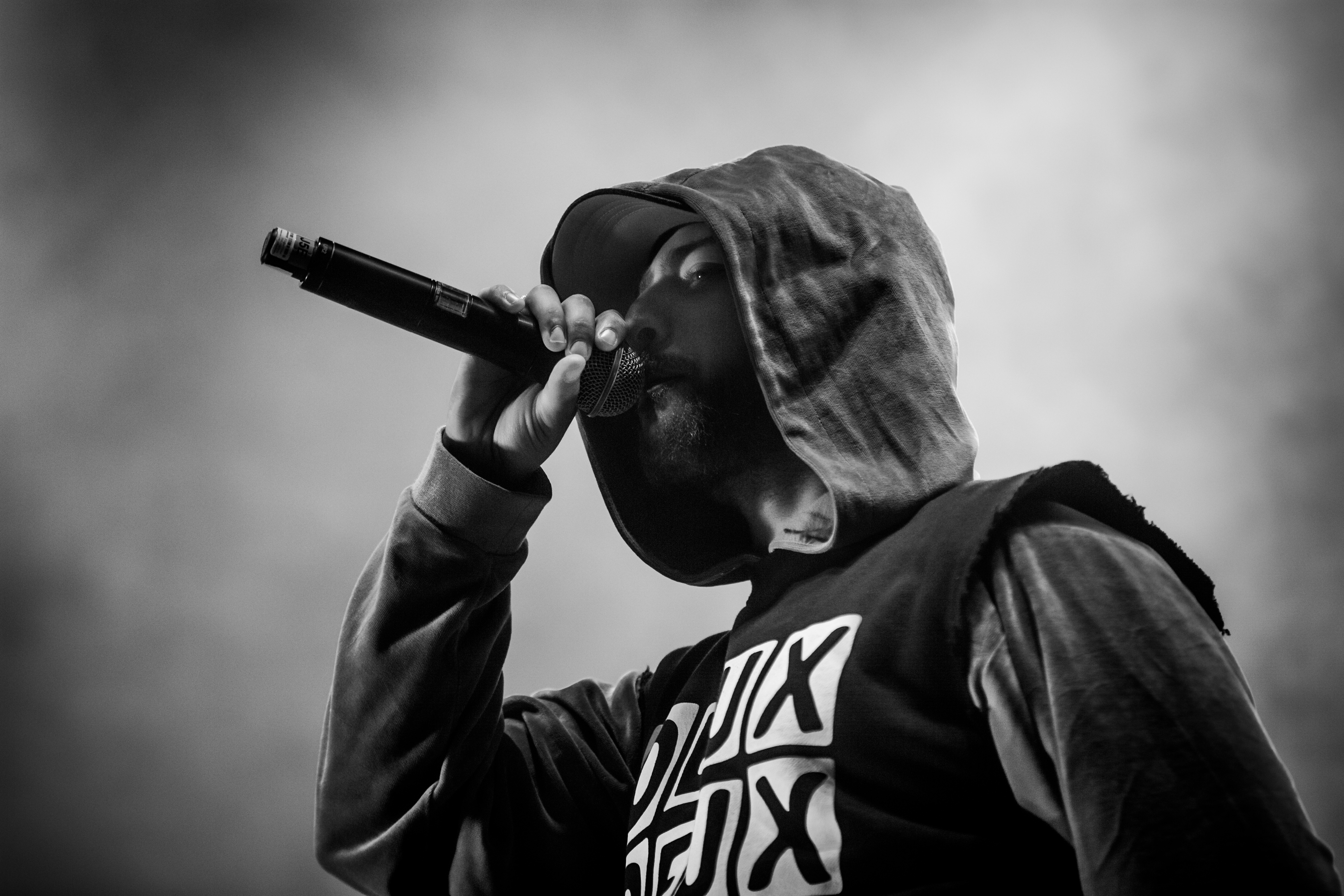 Nimo - Rock am Ring 2017